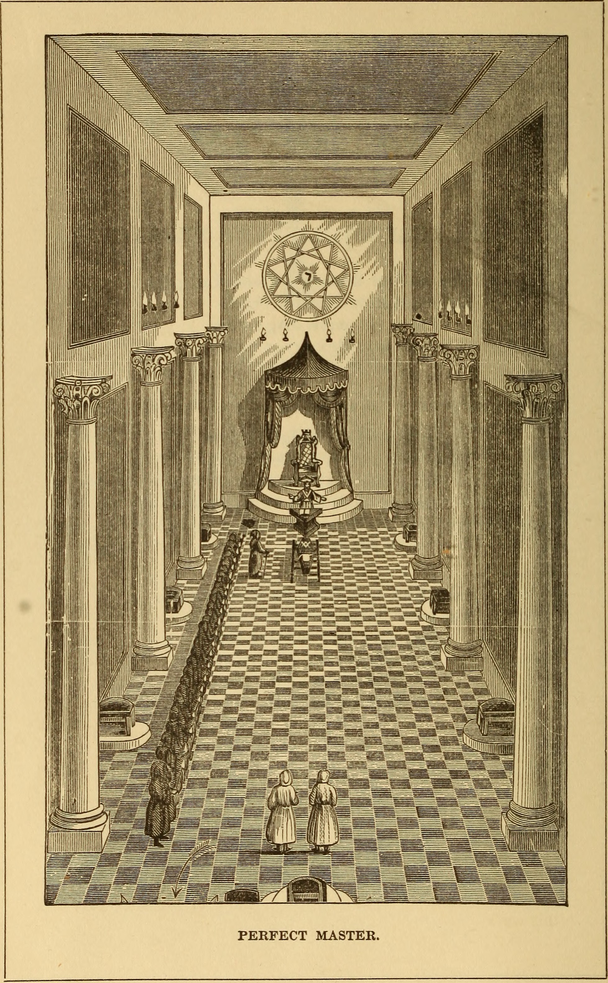 Title: The book of the ancient and accepted Scottish rite Year: 1885 (1880s) Authors: McClenachan Chas T. (from old catalog) Subjects: Publisher: Text Appearing Before Image: ARGUMENT. The solemn ceremonies of the degree of Perfect Master, are in-tended to represent and recall to mind the grateful tribute of re-spect we owe to the memoiy of a departed worthy brother. Theexamination of the mausoleum—its pronouncement of being per-fect—and the «\dvantages we should derive in inculcating thevirtues of the deceased—are vividly depicted and impressed uponthe initiate. THE PERFECT-MASTERS REFRAIN. Our Ancient Brethren, whelmed in grief,Lamented their departed Chief,Let us his pupils long revereA name to Masonry so dear.Just Hiram Abif,Just Hiram Abif. In mystic rites our Lodge displays Its sorrows and its fadeless praise. Long may the sweet acacia bloom And garlands fresh adorn the tomb Of Hiram Abif, Of Hiram Abif. Look East, look West, its splendors fail,The lesser lights grow dim and pale,The glory once reflected thereNow dawns upon a higher sphere.Blest Hiram Abif,Blest Hiram Abif. 49 Text Appearing After Image: '